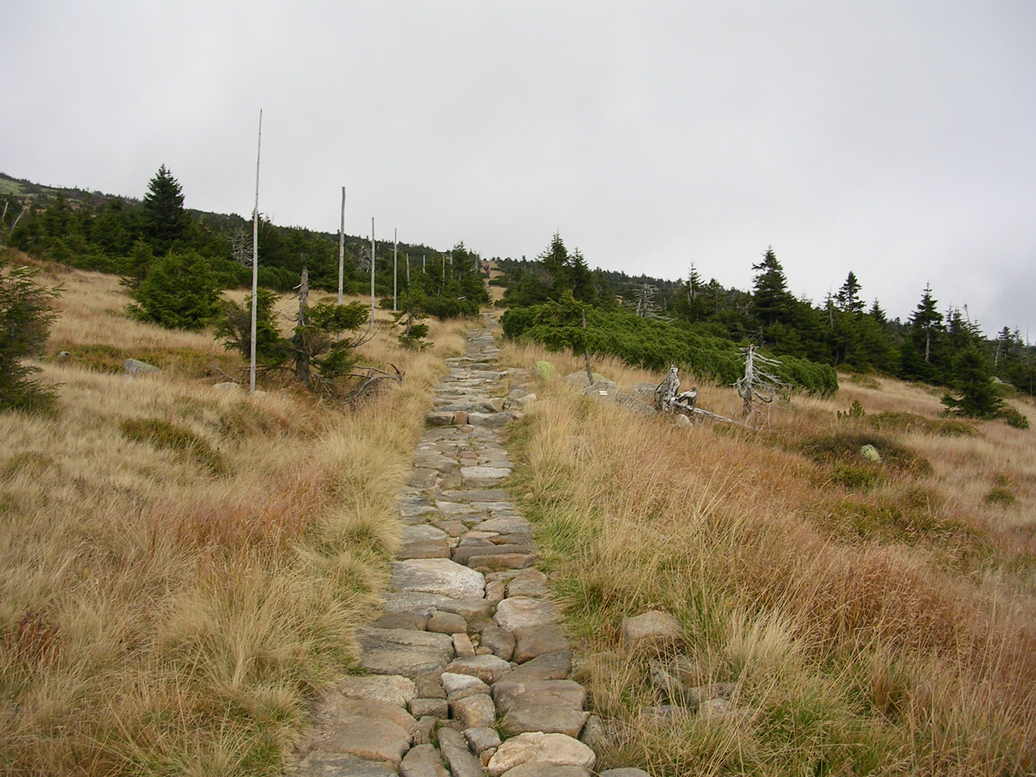 A trail between Labská bouda and Sněžné jámy, Krkonoše Mountains, the Czech Republic.